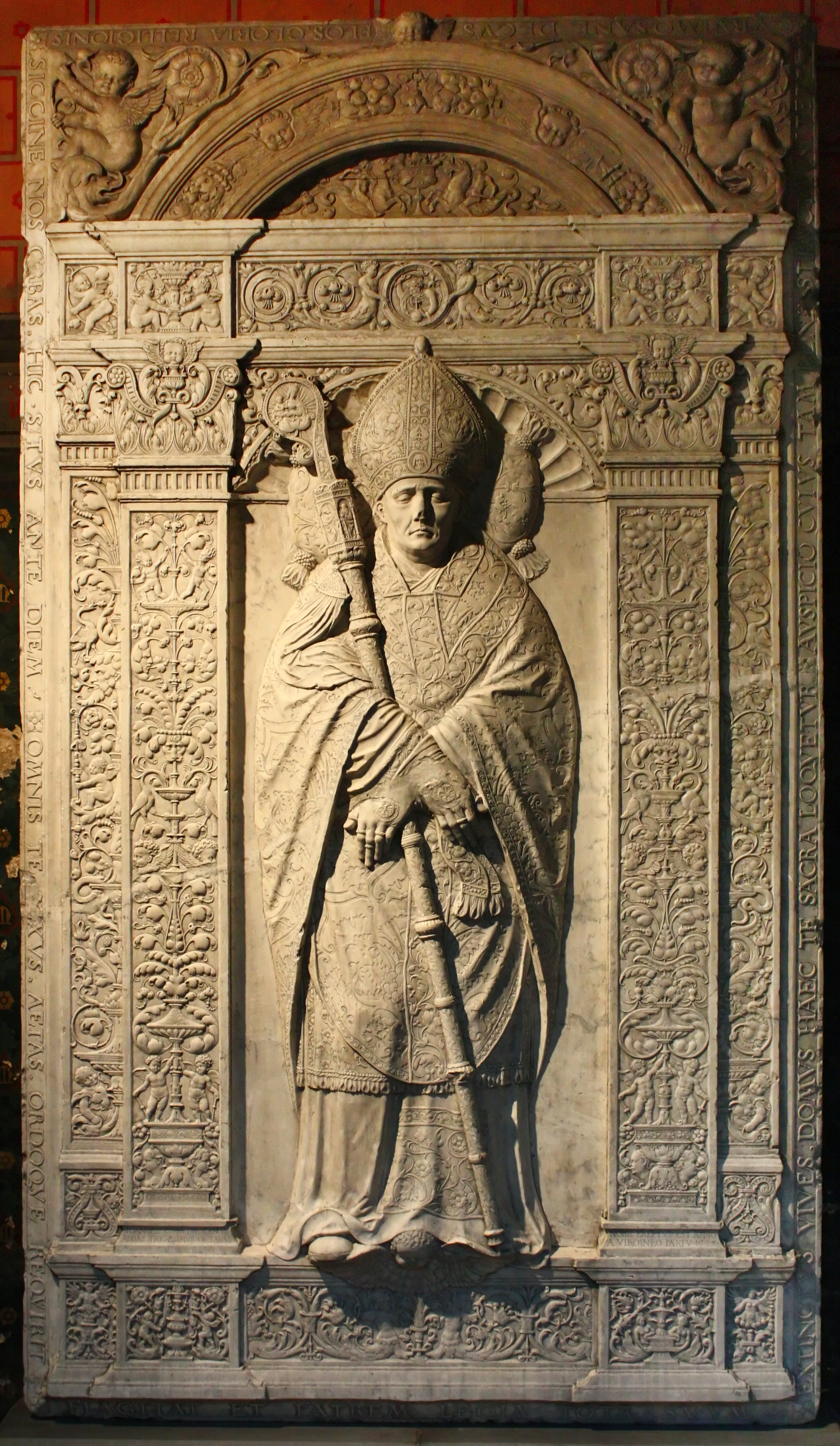 Making of tombstone of abbot Jean de Cromois.